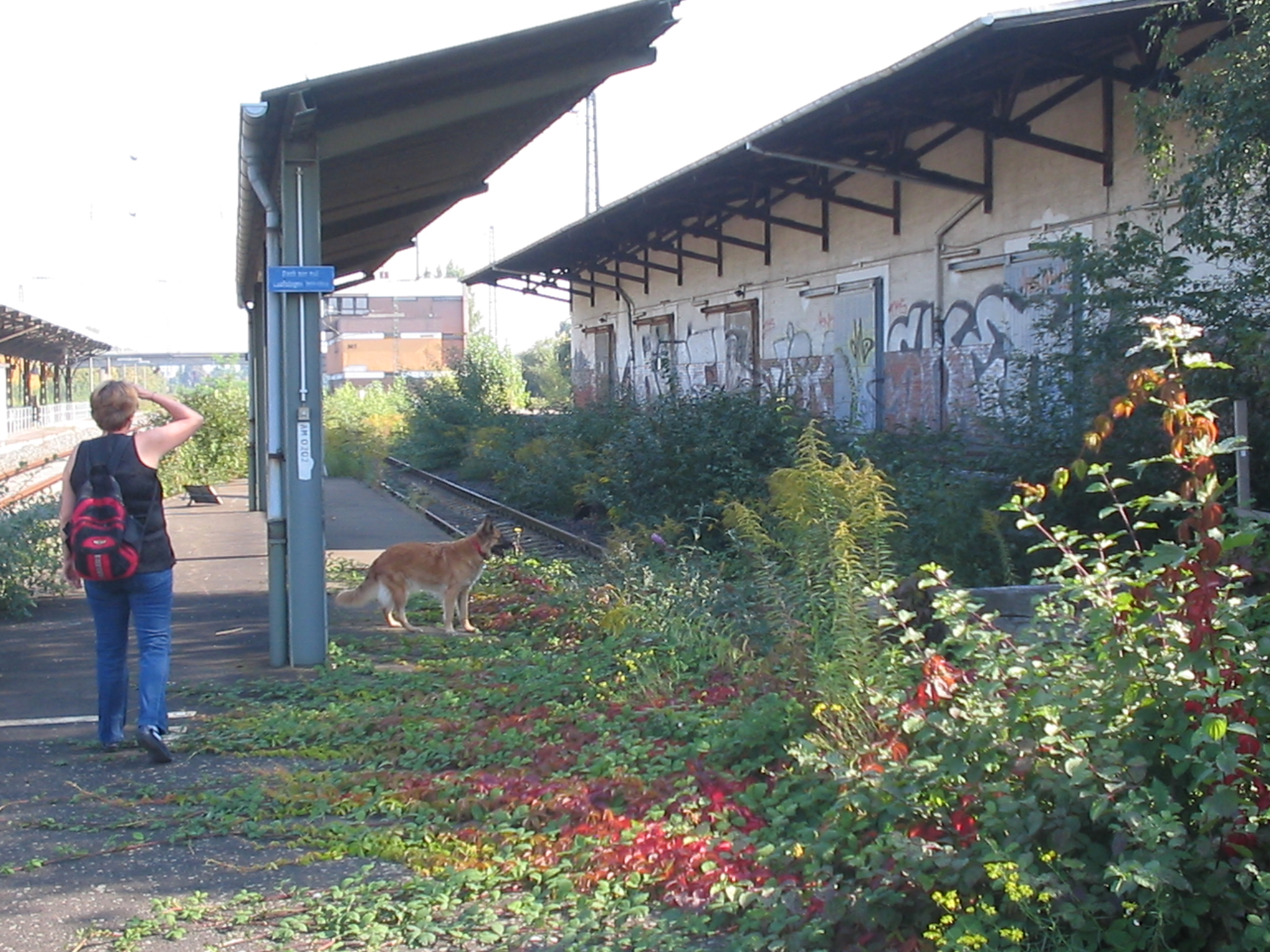 Frankfurt-Mainkur railway station: An idyllic green scenery greets passengers on their way to the platform